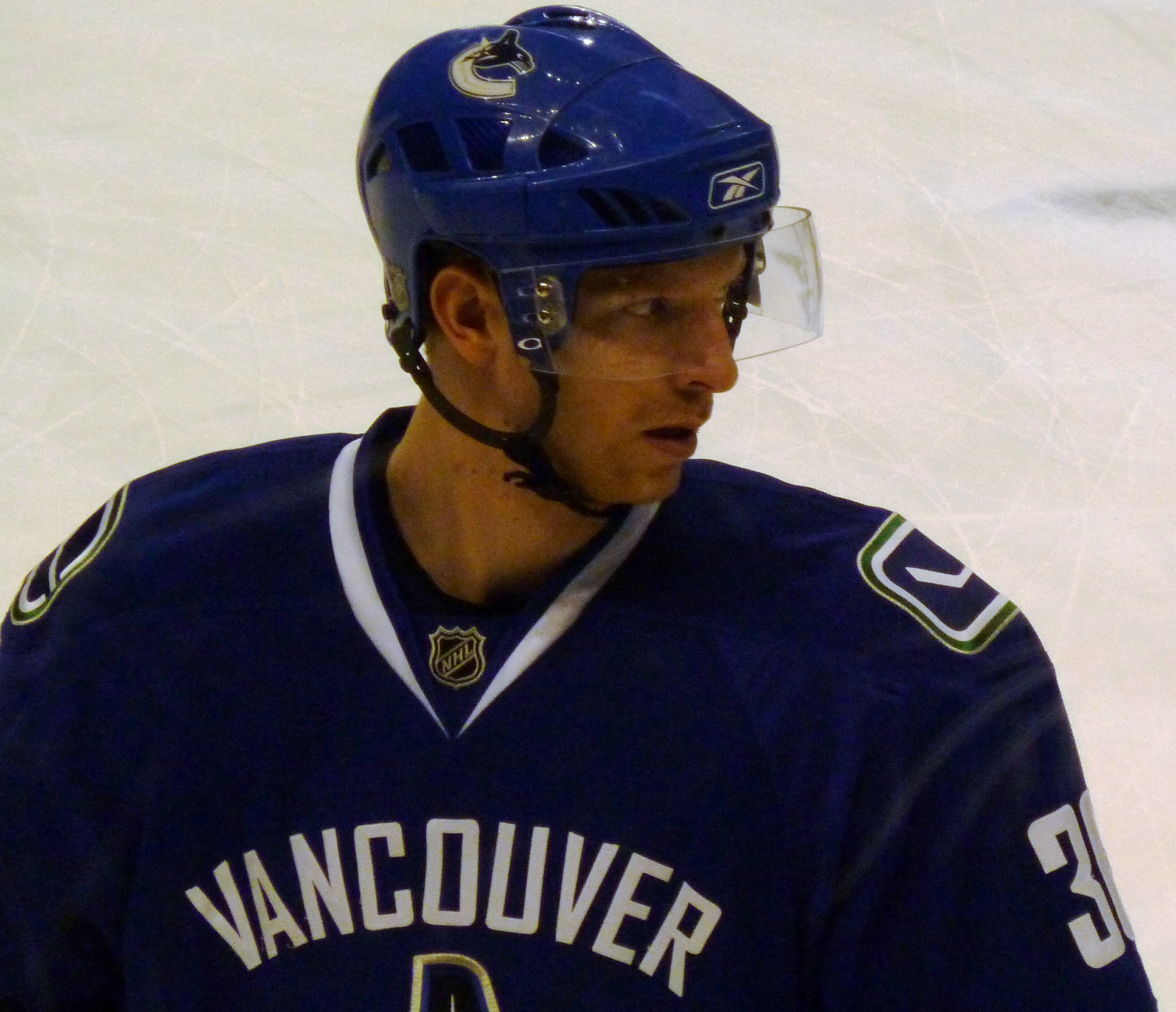 Jannik Hansen during warmup before an NHL game between the Vancouver Canucks and the San Jose Sharks at GM Place.